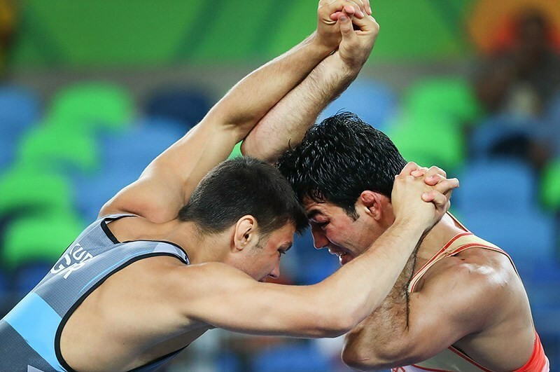 RIO DE JANEIRO (Tasnim) – Iranian Greco-Roman wrestler Habibollah Akhlaghi experienced a bitter defeat vs. Germany’s Denis Maksymilian Kudla on Monday and was eliminated from the Rio 2016 Olympic Games in Rio de Janeiro. Men's Greco-Roman 85 kg.